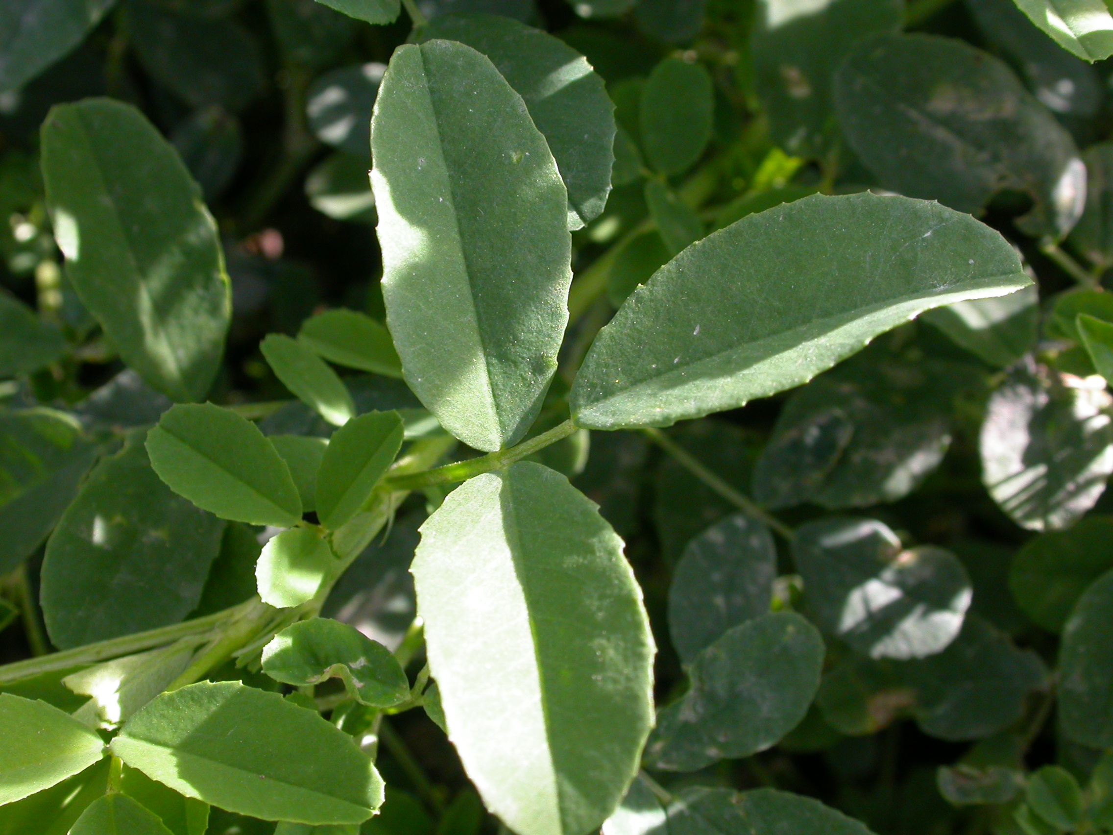 The succulent glabrous green leaves have three leaflets arranged in pinnate, not palmate, fashion.